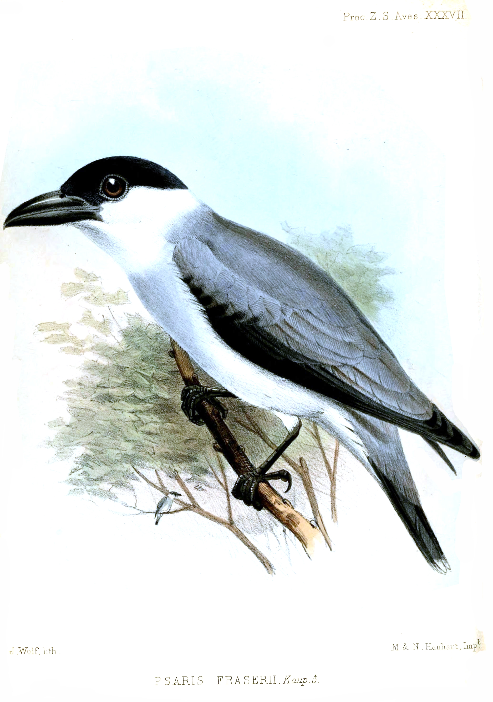 Psaris fraserii = Tityra inquisitor fraserii